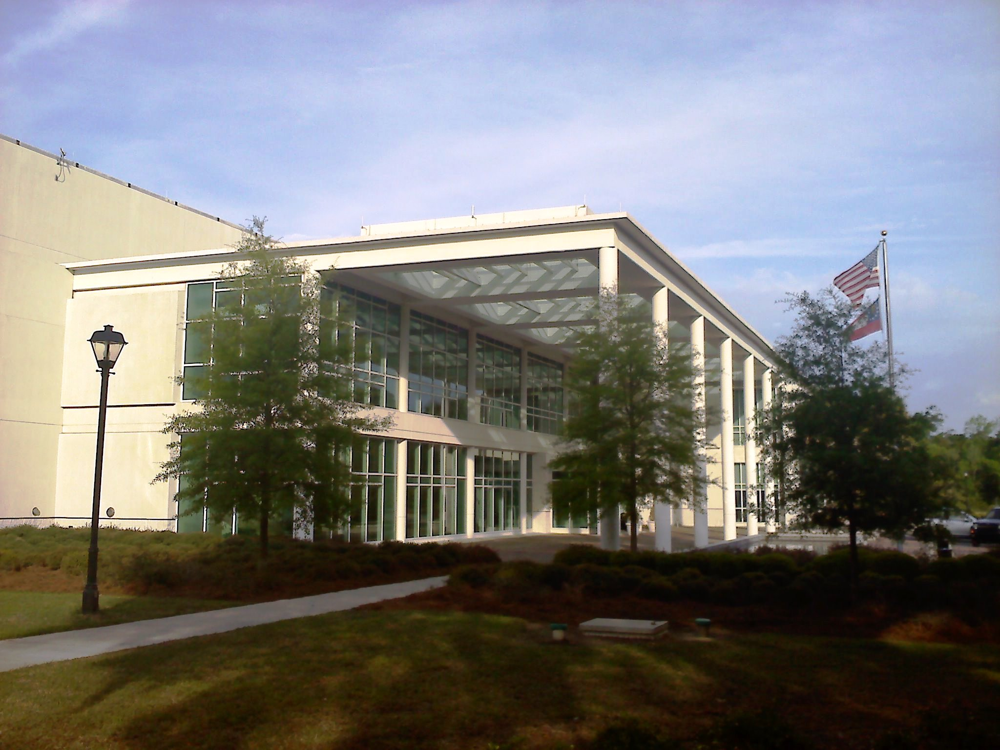 Mercer University, School of Medicine in Savannah, Georgia, United States.